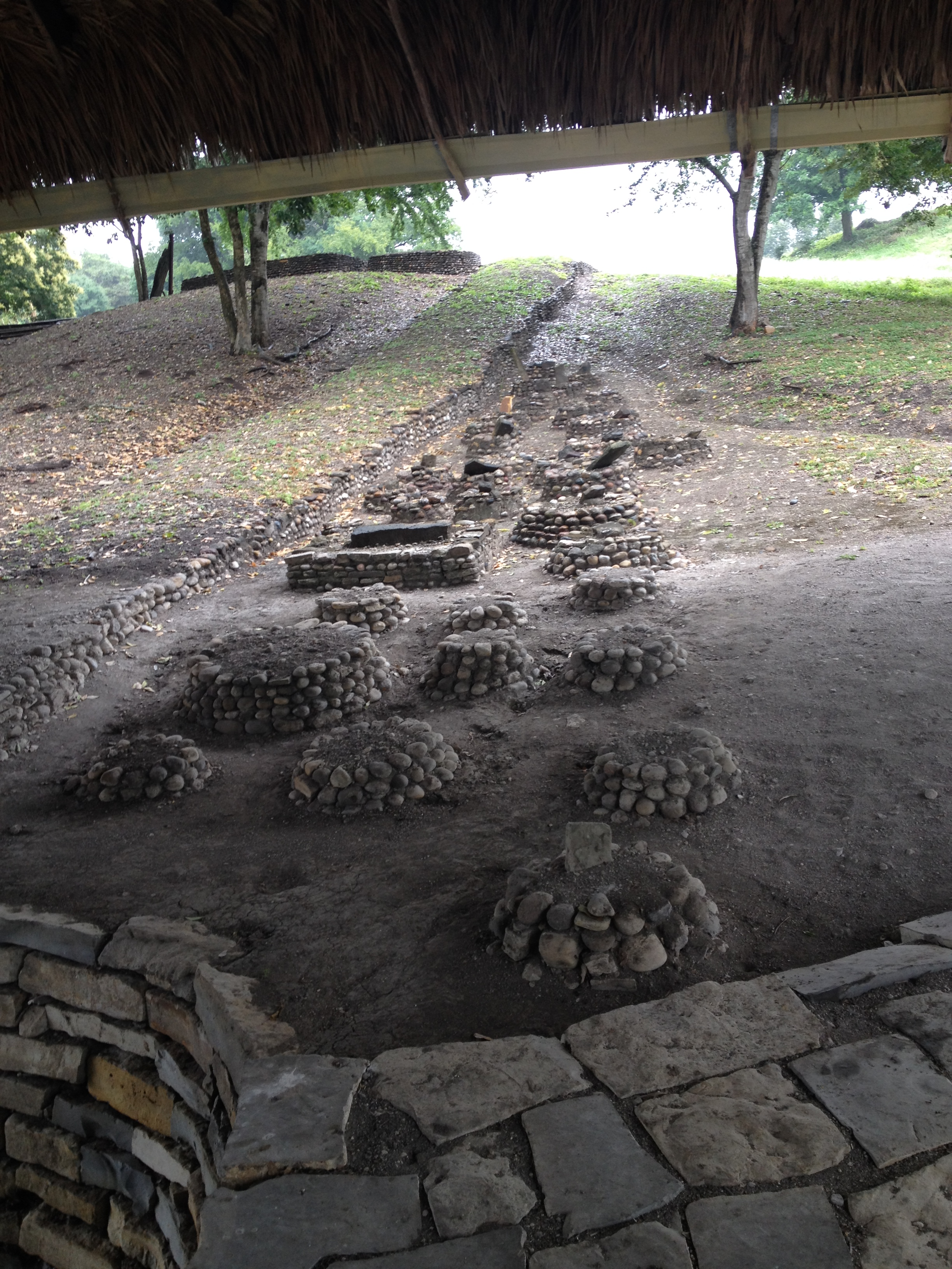 Montículos funerarios